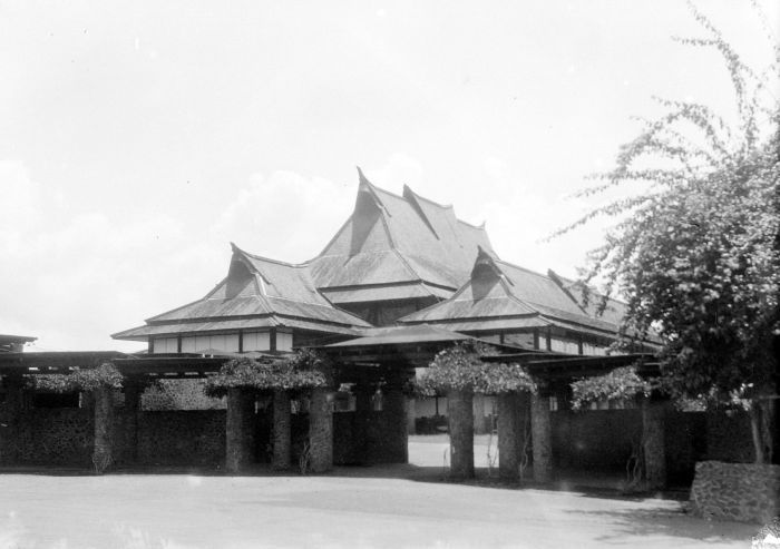 Institute of Technology, Bandung